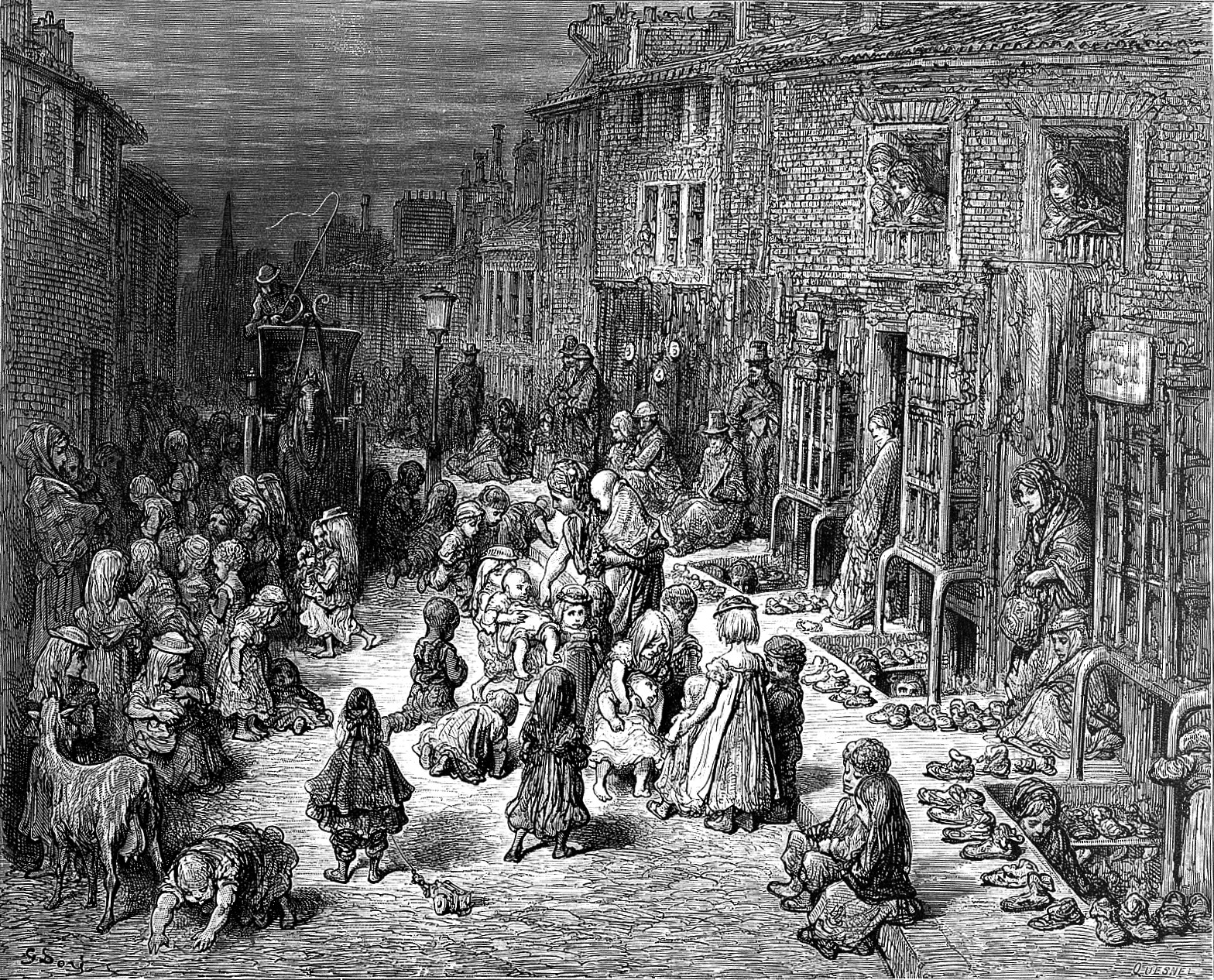 Dudley St., Seven Dials Wellcome Images Keywords: central london, 19th century; seven dials; Slums; Poverty; Poverty Areas; Gustave Dore; Gustave Dore